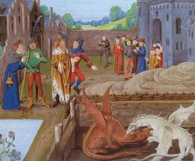 Detail from Lambeth Palace Library MS 6 folio 43v illustrating an episode in Geoffrey of Monmouth's Historia regum Britanniae